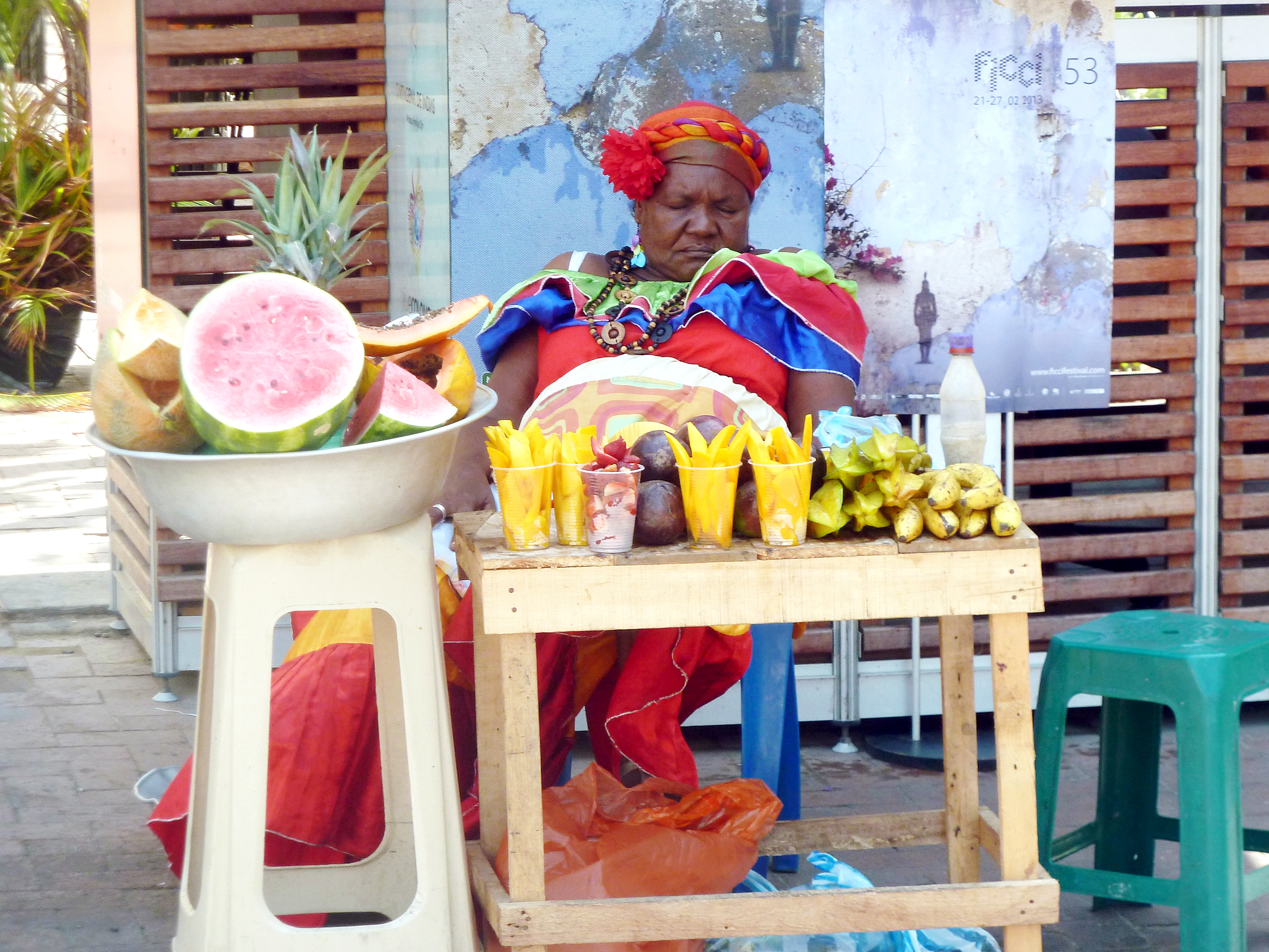 A Palenquero woman selling fruit in the Plaza de San Pedro Claver, Cartagena, Colombia.